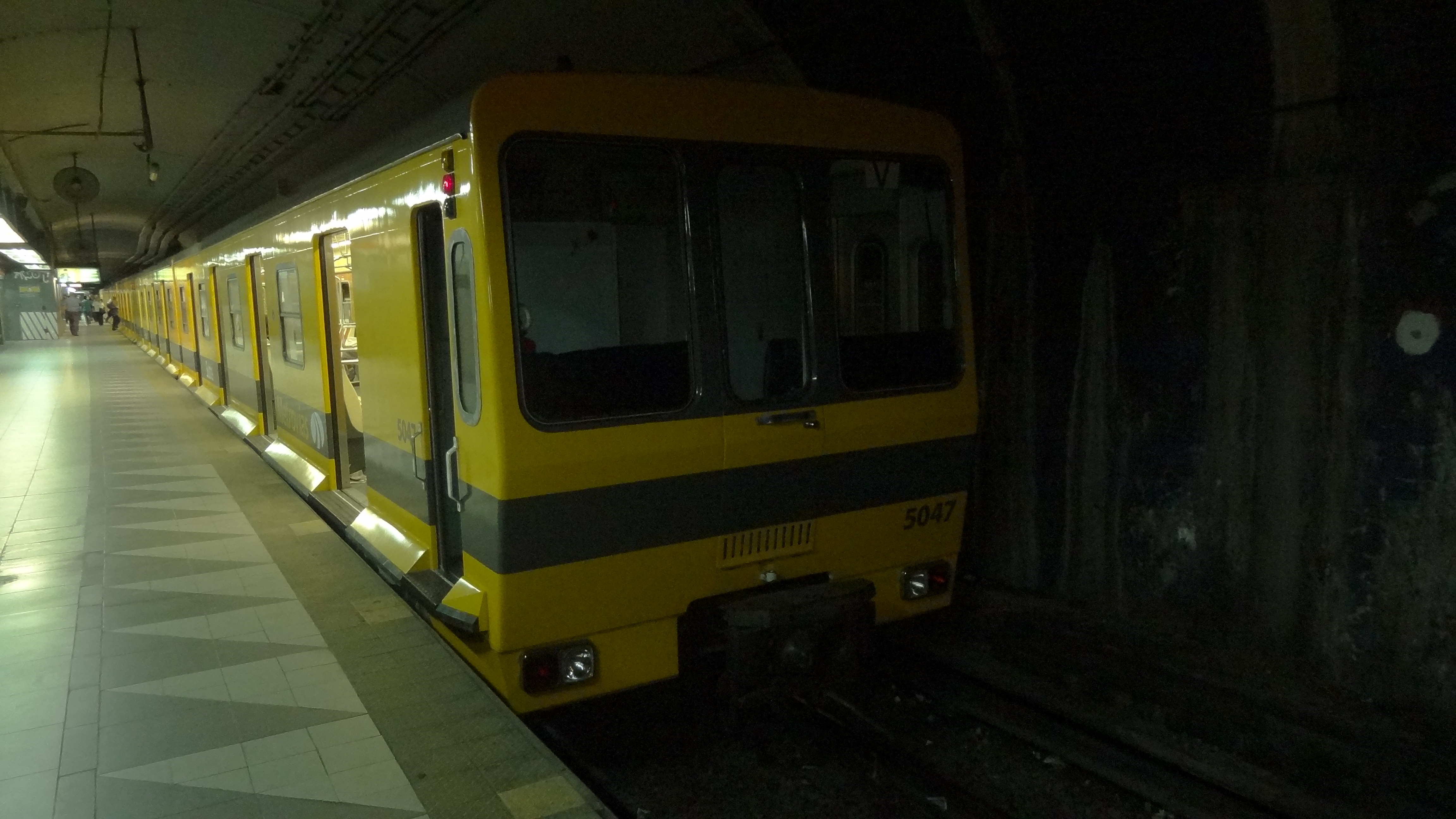 First CAF 5000 metro batch on service on the B Line of the Buenos Aires Subway.